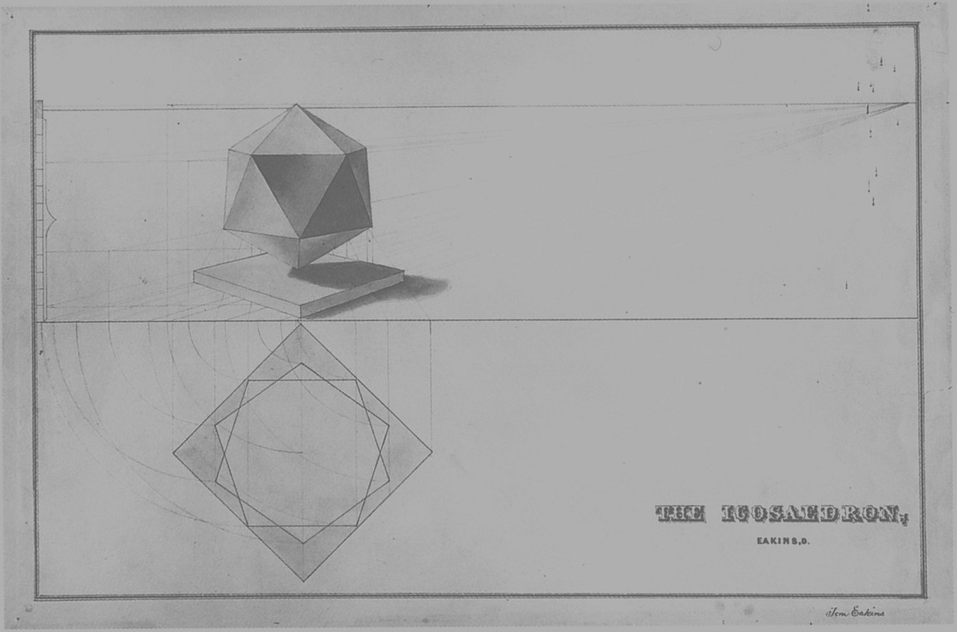 Drawing The Icosahedron by Thomas Eakins